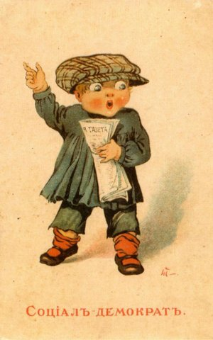 Postcard by Vladimir Taburin